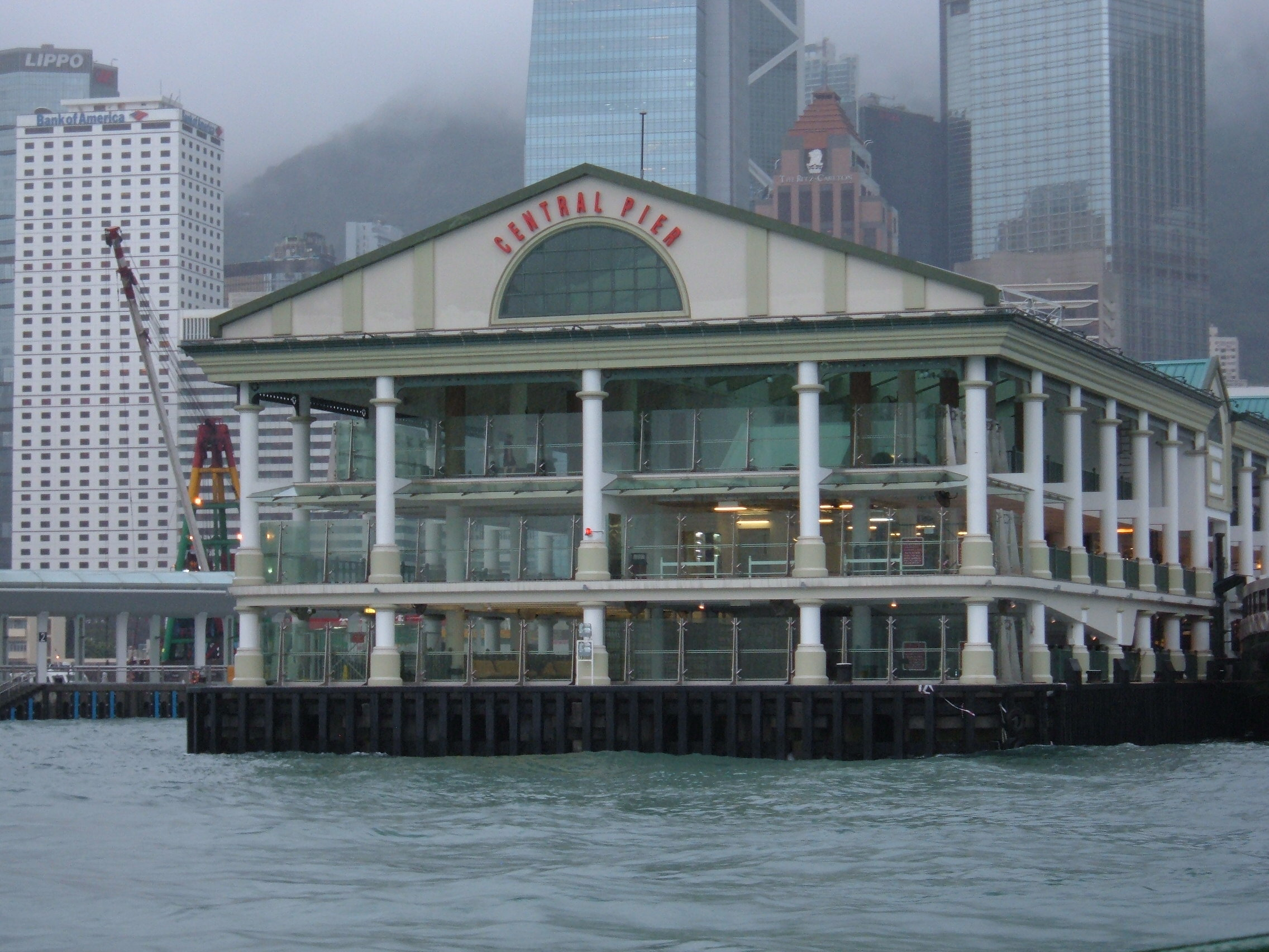 Central Star Ferry Pier terminal on Hong Kong Island.